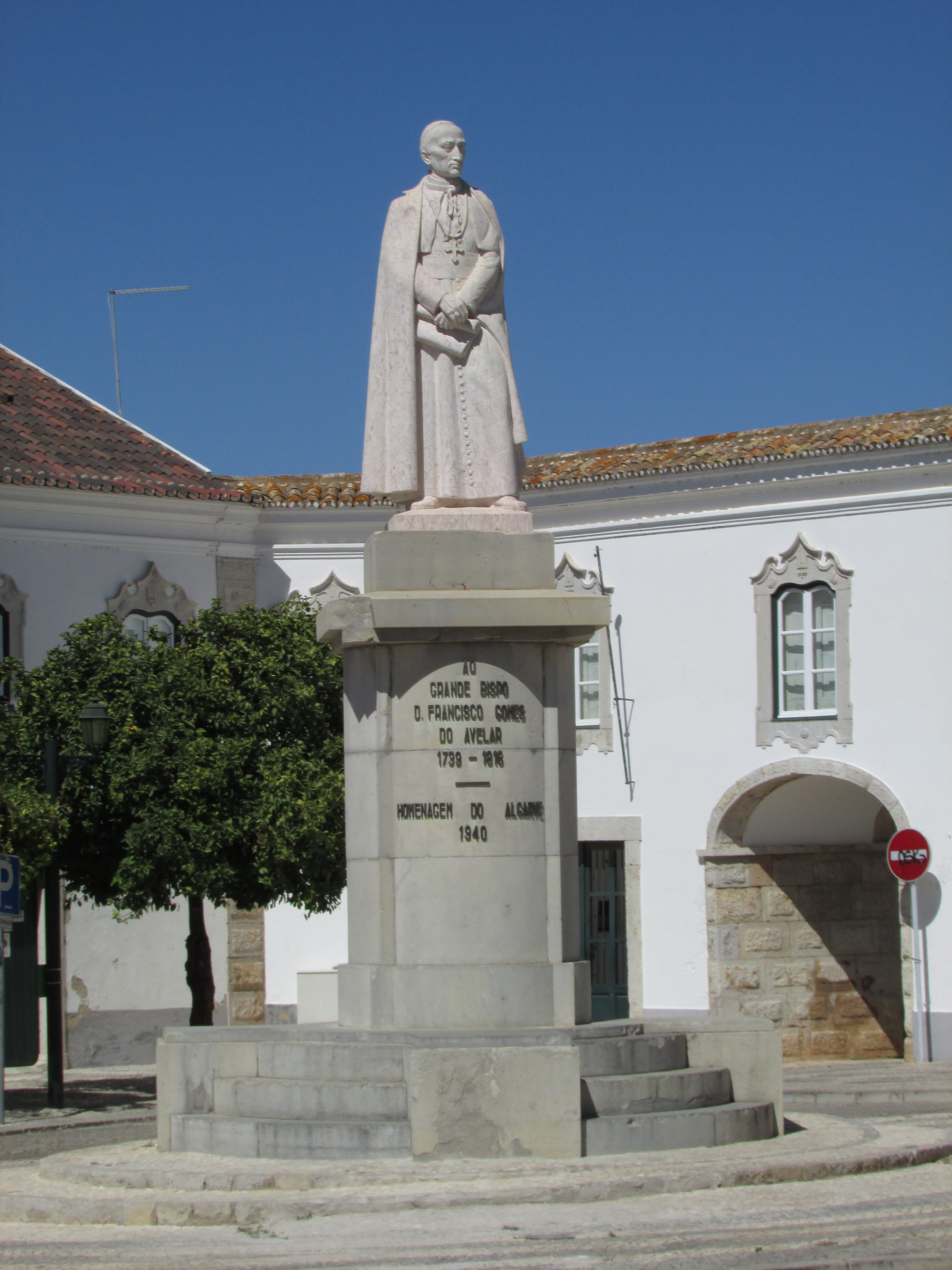 This statue of Francisco Gomes de Avelar stands in Largo da Sé which is located in the old town within the city of Faro, Algarve, Portugal.